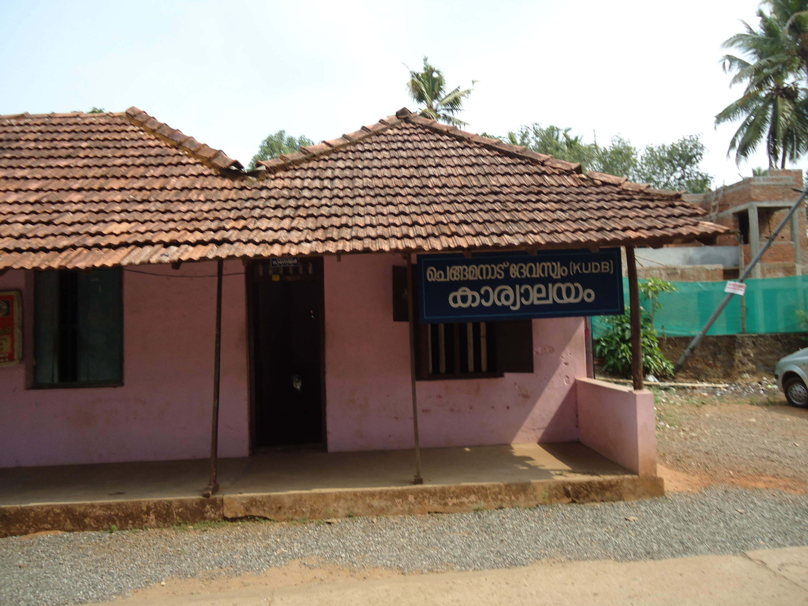 Chengamanad Devaswam office